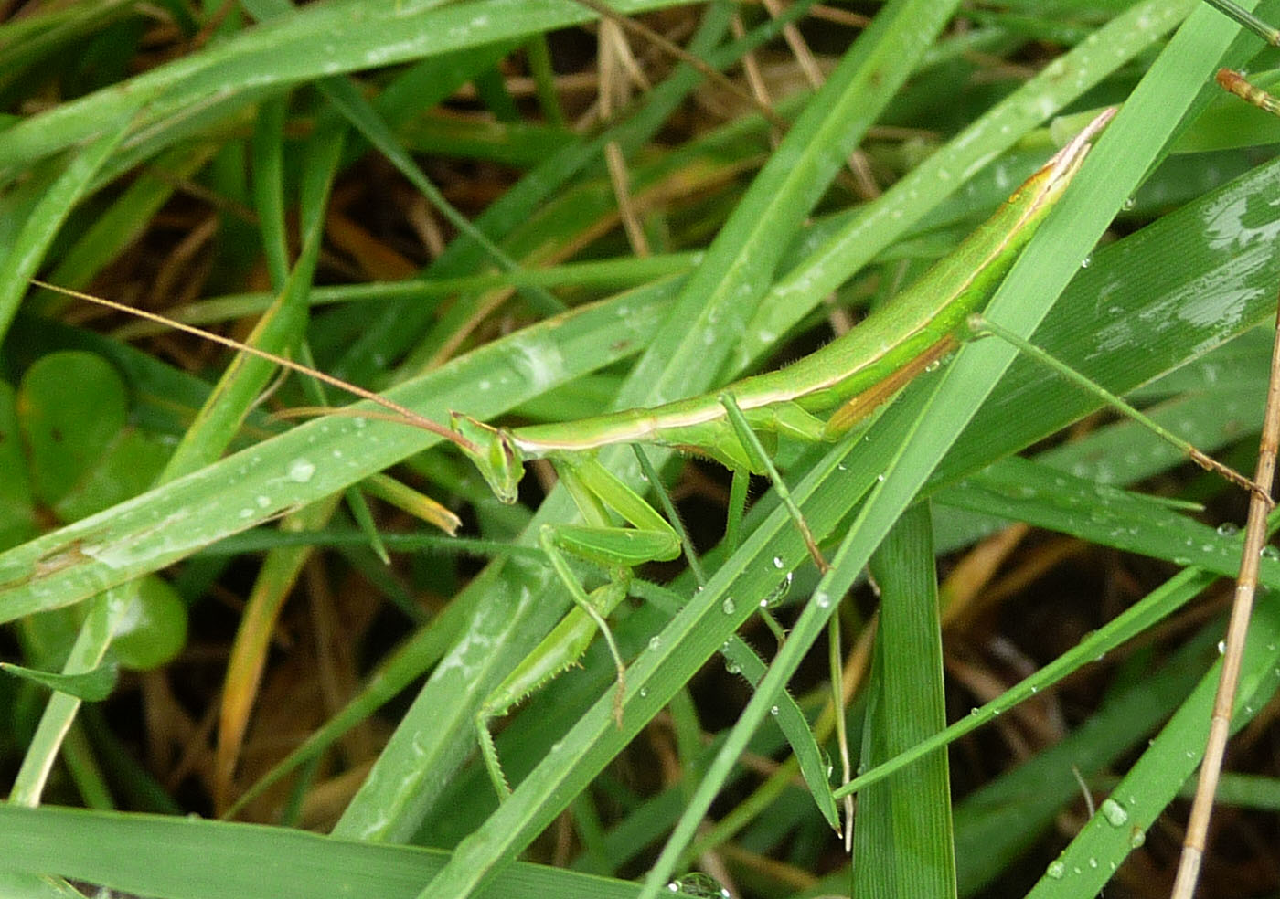 Apteromantis aptera (Mantidae)